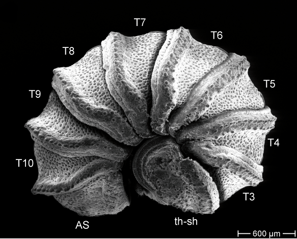 Body part and tergite nomenclature. SEM micrographs of a female of Trachysphaera pyrenaica (GEU157, MBiIDs 852870 and 852871). Abbreviations: Ant = antenna; AS = anal shield; Co = collum (tergite 1); h = head; th-sh = thoracic shield (tergite 2); T# = tergite number. a: lateral view, showing slightly unrolled specimen b: same specimen, view of the opening between anal shield and thoracic shield, exposing head and collum (reduced first tergite) usually held inside the sphere when rolled up